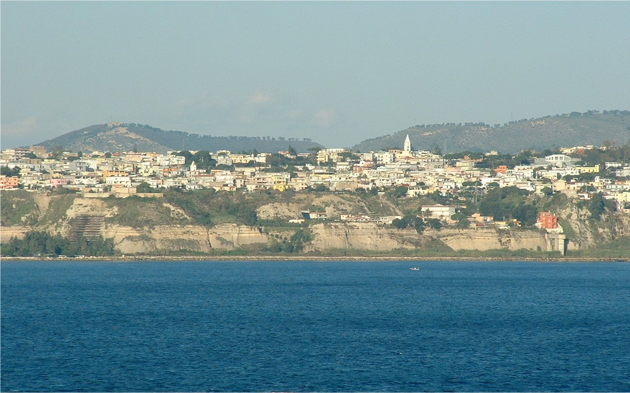 Views of Monte di Procida from Procida - photo by Romina and utente:Retaggio